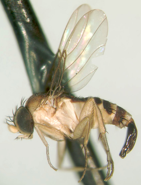 Apocephalus (Apocephalus) opimus, female